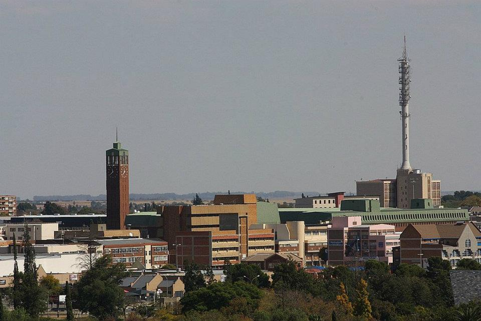 Welkom City Skyline